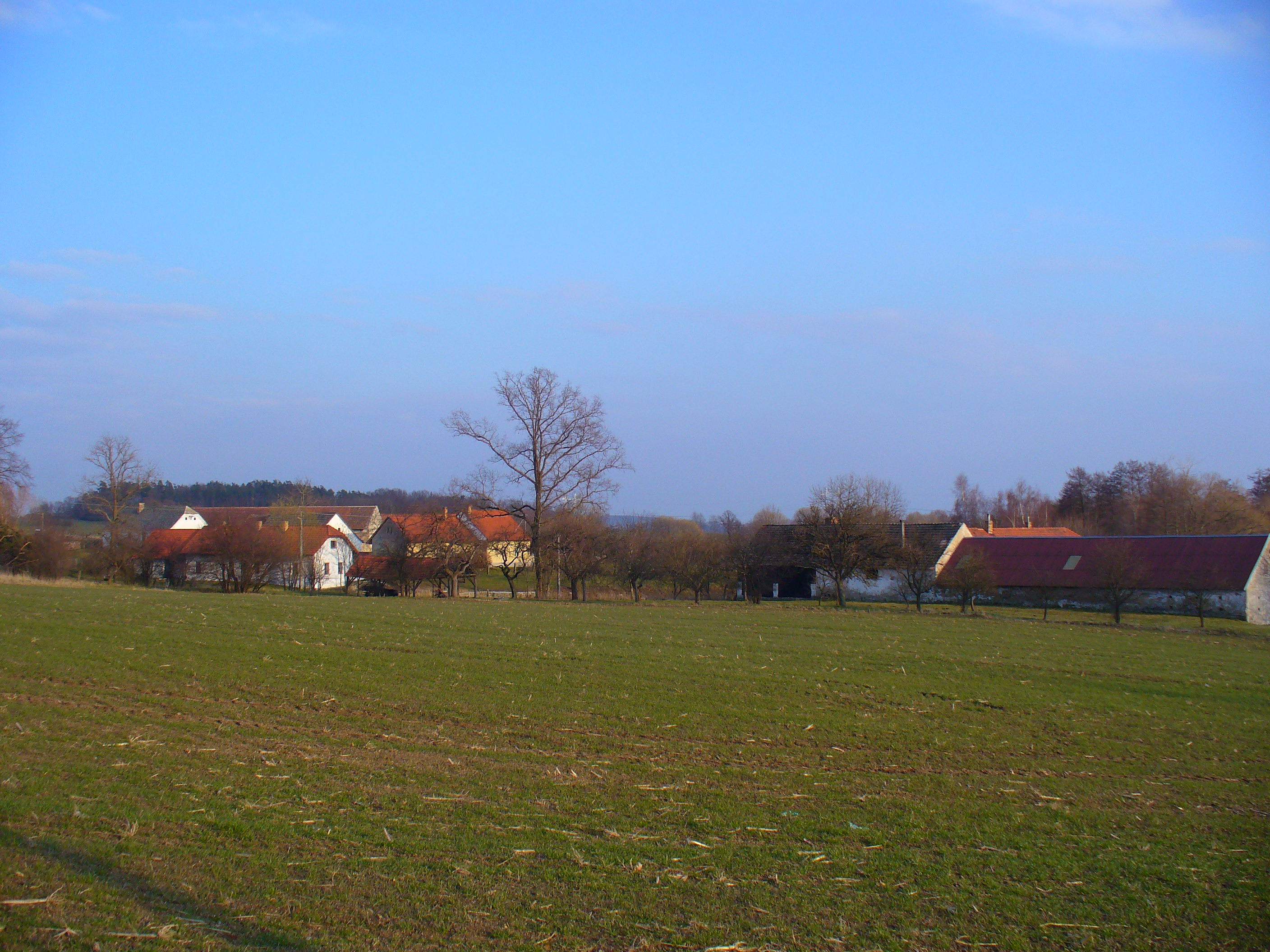 All viev on Záluží